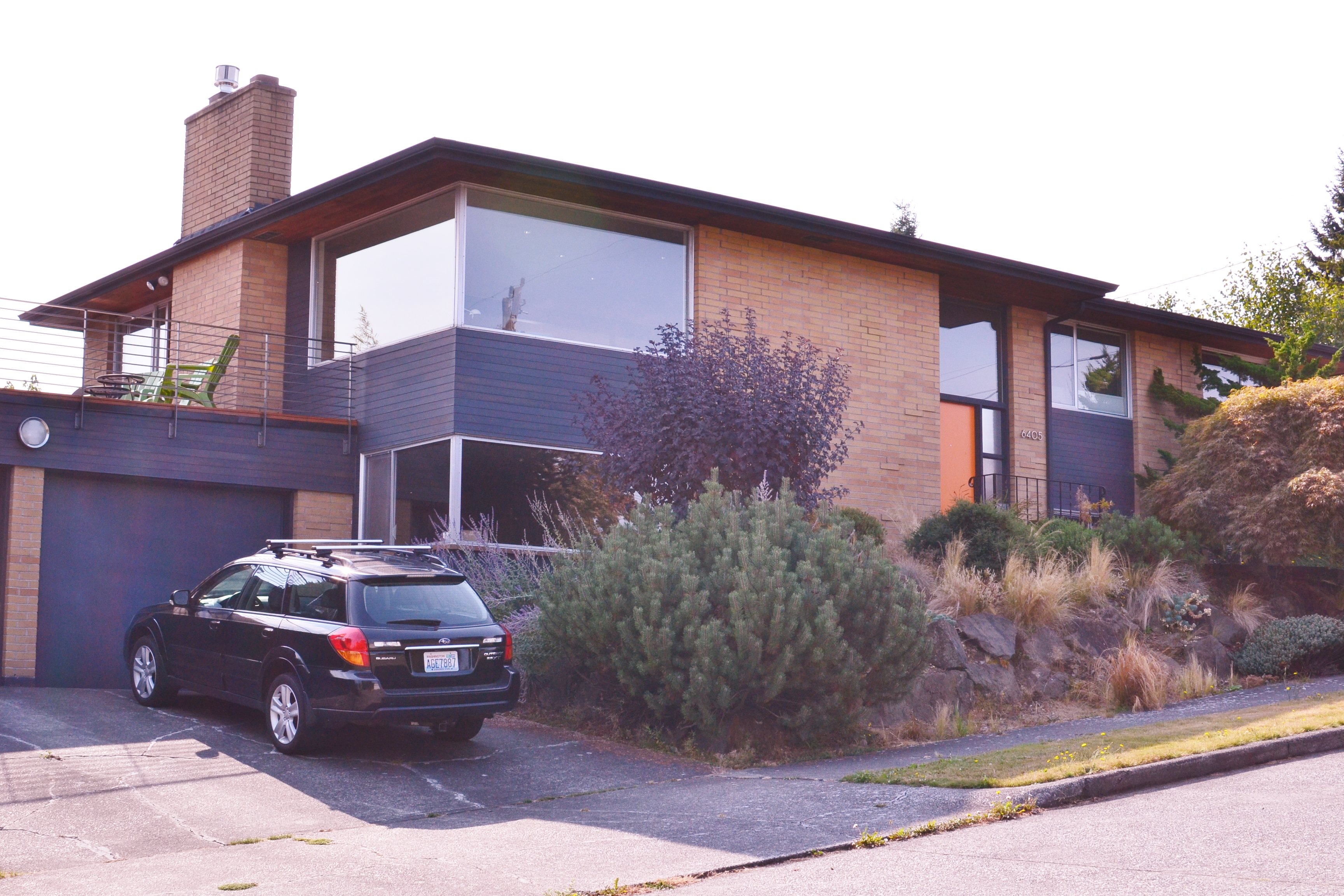 Home in the Rainier Beach neighborhood of Seattle. Well restored, mid-century home.